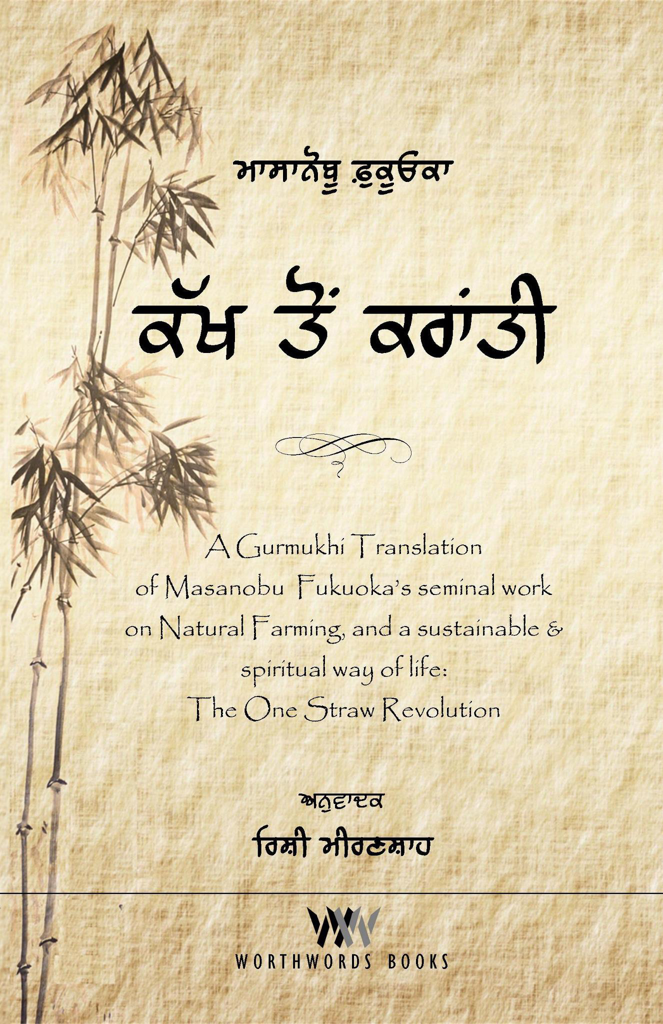 Book cover of Gurmukhi translation by Rishi Miranhshah